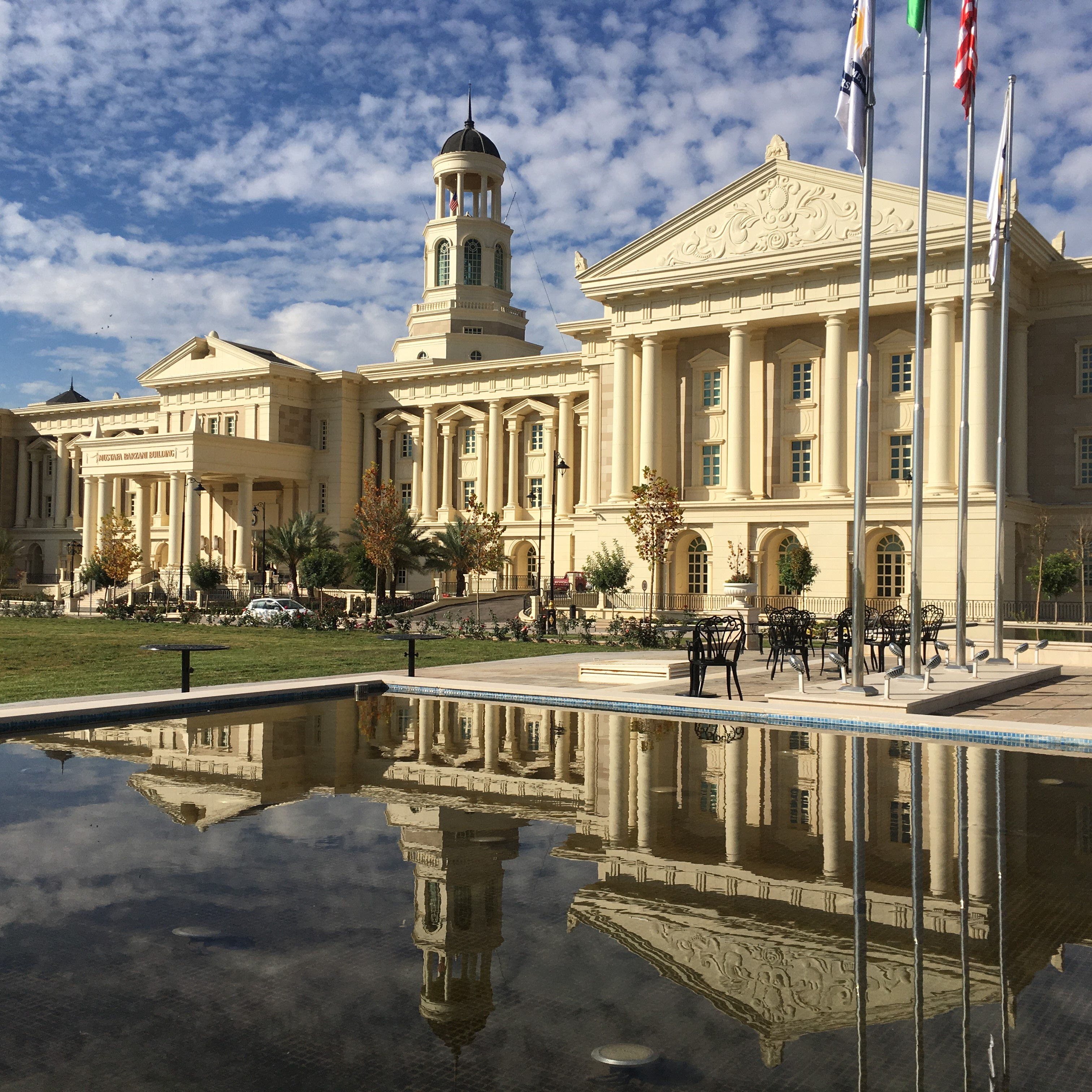 Building front Face